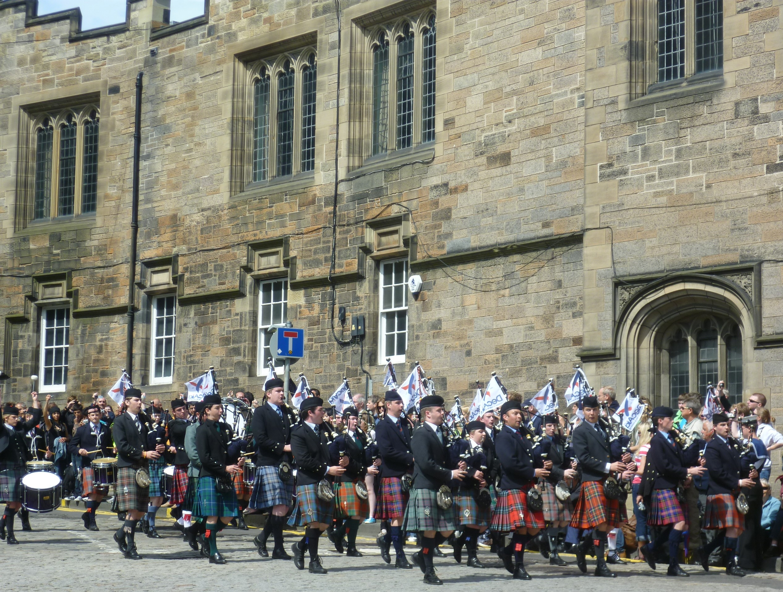 Part of a parade held in connection with Armed Forces Day which the city hosted in 2011.